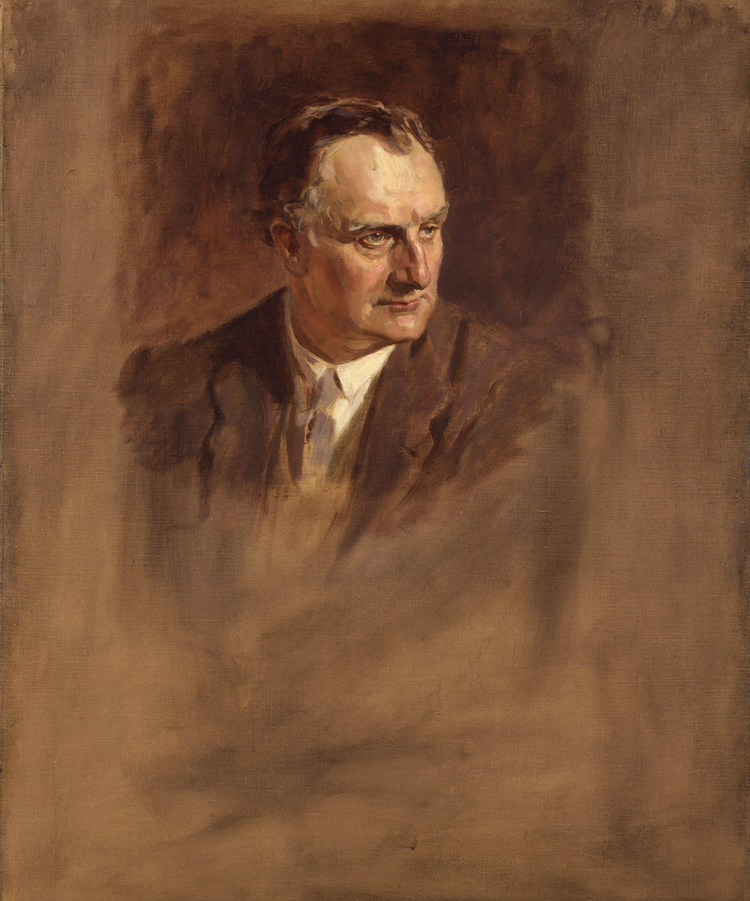 Painting by Sir James Guthrie for Statesmen of Worls War I